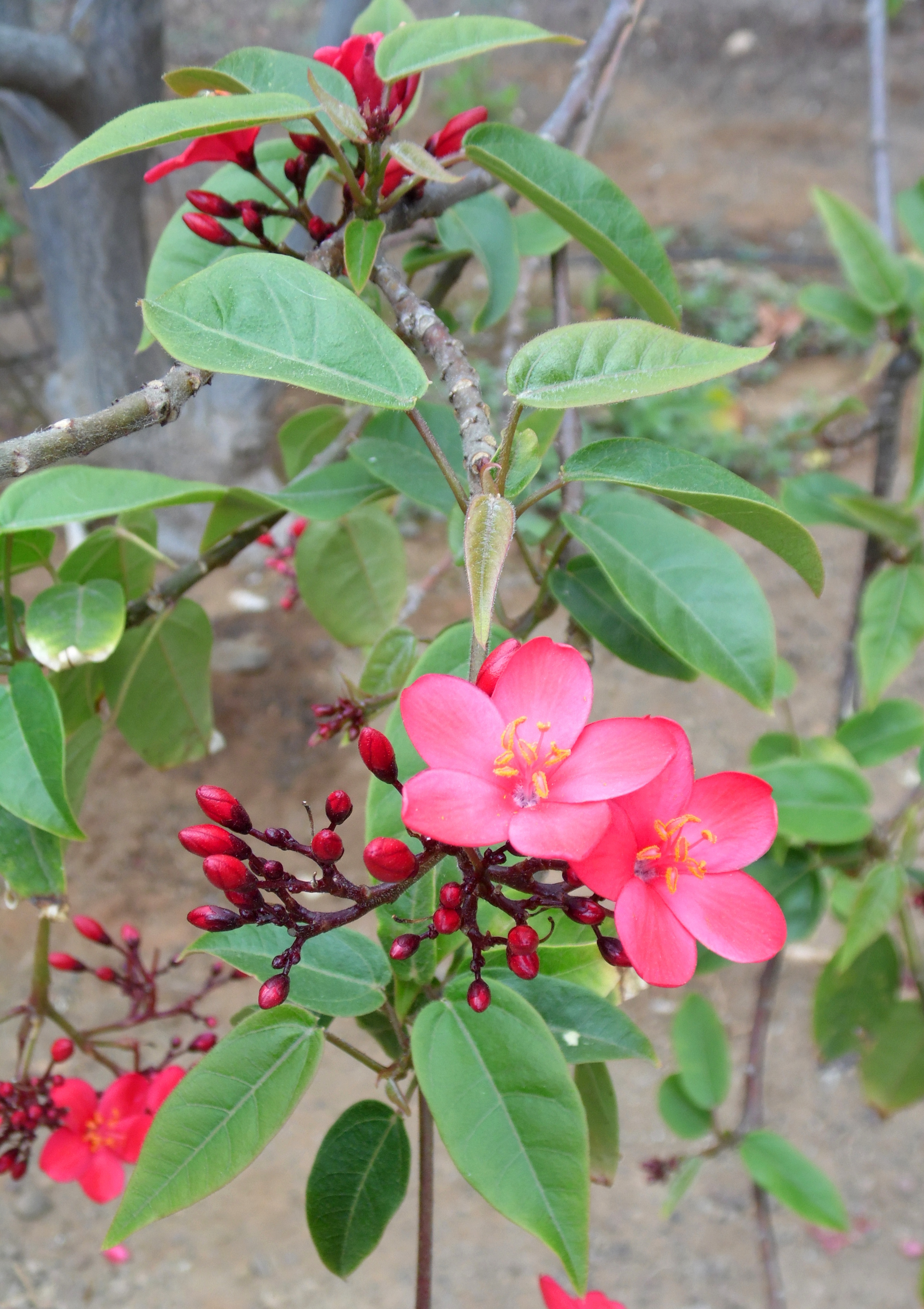 Jatropha integerrima in Parque Botánico de Maspalomas (Gran Canaria)